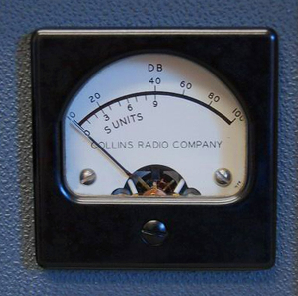 Signal strength meter of the Collins receiver 75-S1 with two scales, one in dB and the other in S-points. S-9 equals 100 μV at the input of the antenna when the impedance is 50 Ω.